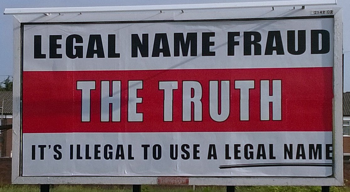 Billboard promoting the sovereign citizen "legal name fraud" trope.